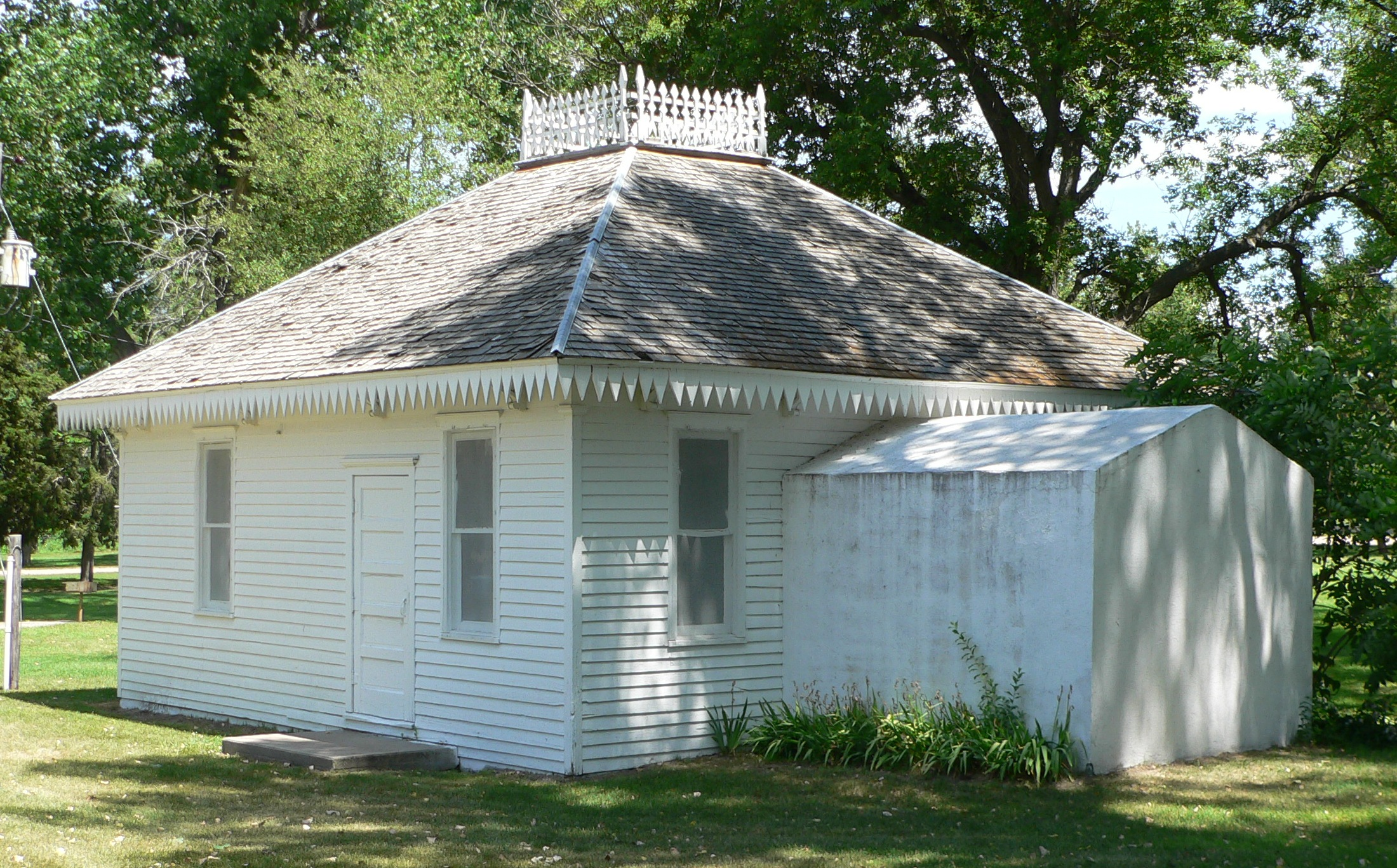 First Arthur County courthouse in Arthur, Nebraska; seen from the southwest. The courthouse was built in 1914. The First Arthur County Courthouse and Jail complex is listed in the National Register of Historic Places.